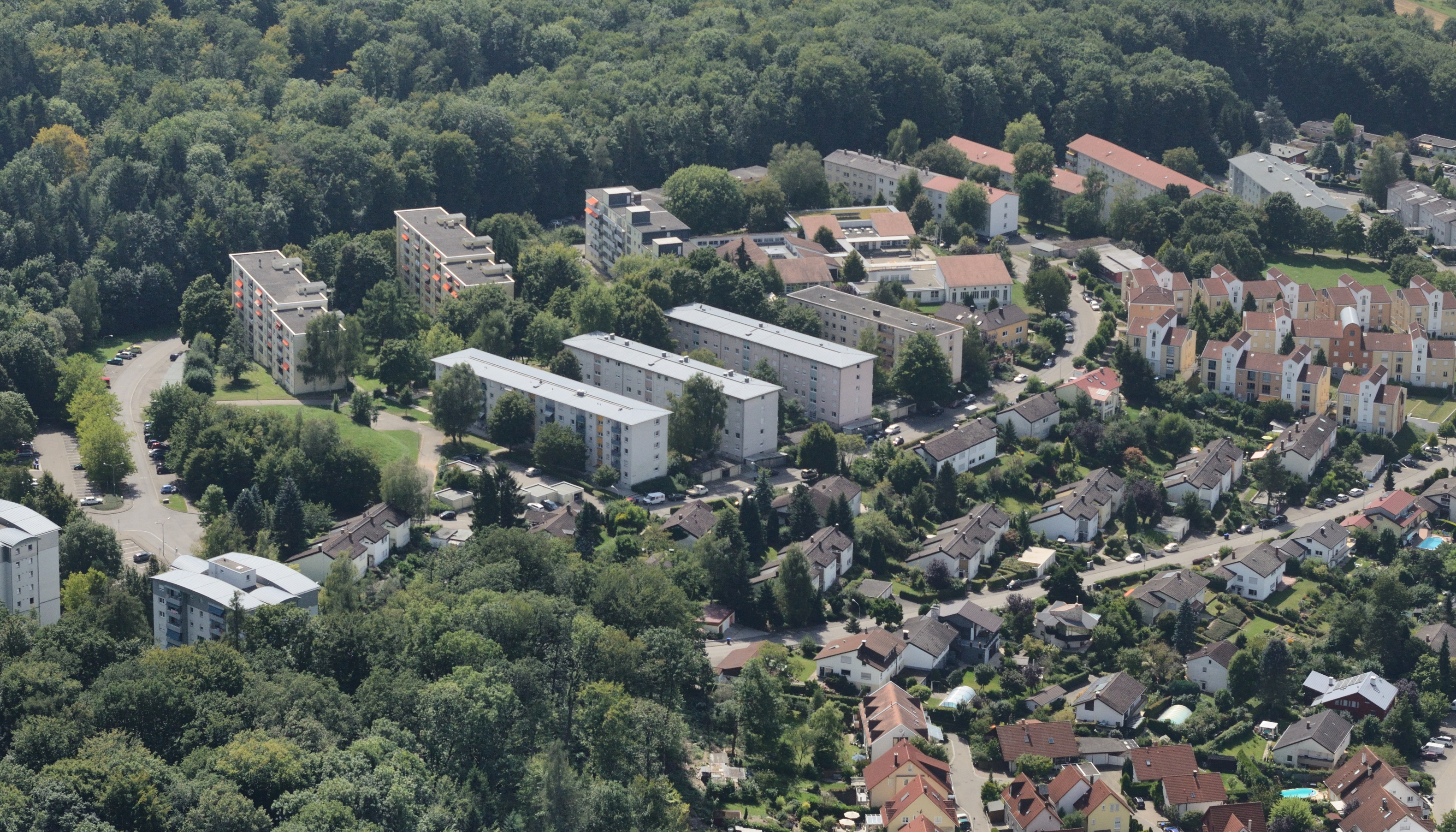 aerial view of the satellite town Salzert (Lörrach)